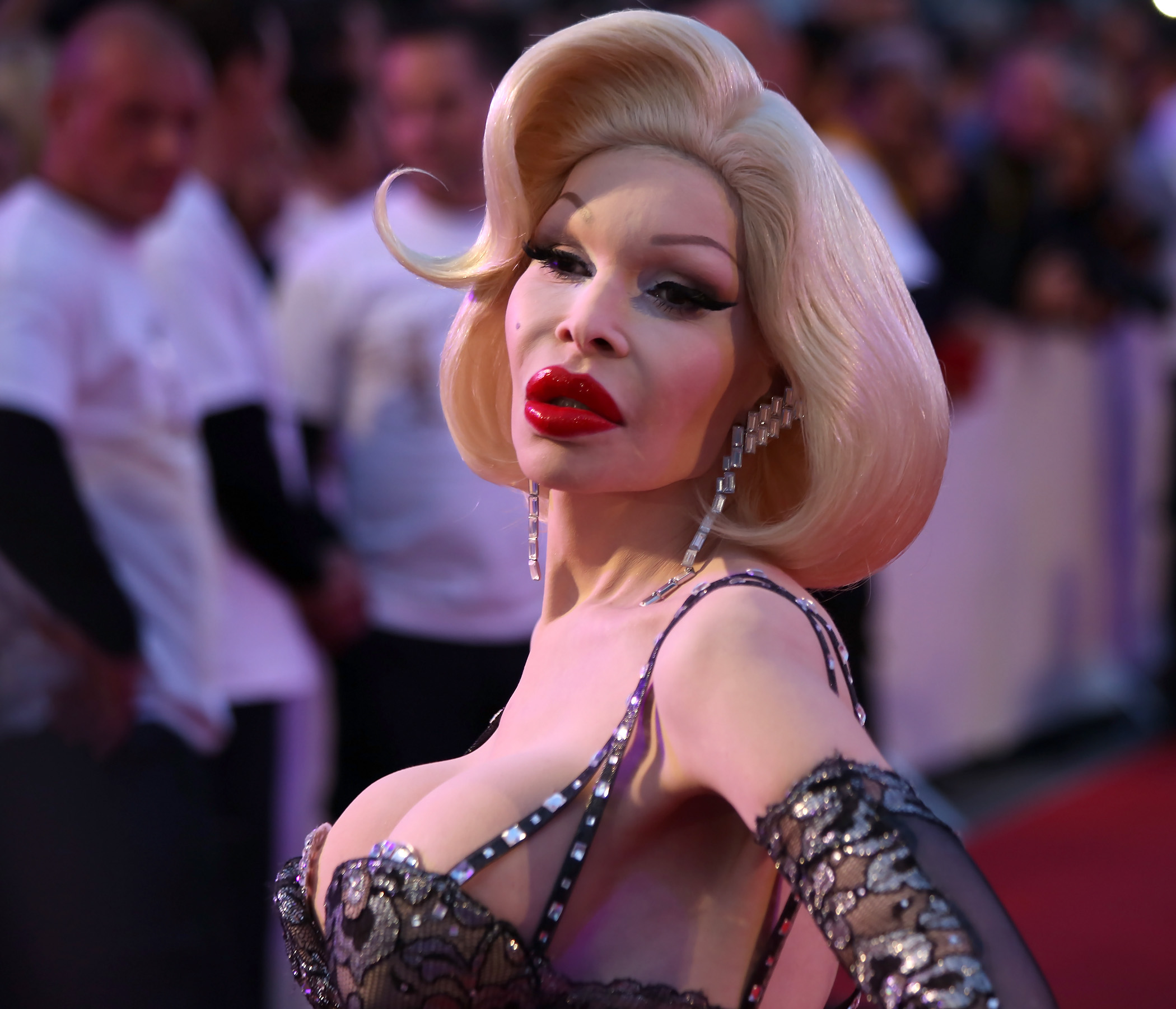 Life Ball 2014: Amanda Lepore on the red carpet on the square in front of the Rathaus (Town Hall) of Vienna, Austria.